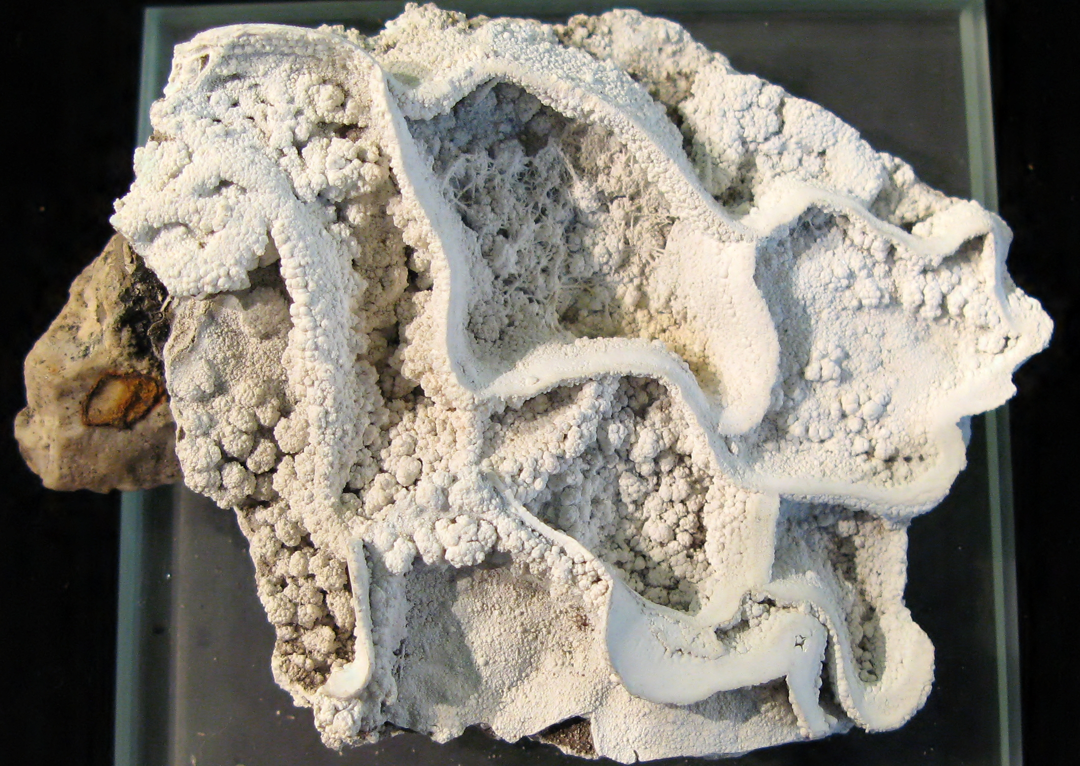 Hydrozincite - Locality: Bleiberg, Kärnten - Exposed in the Mineralogical Museum, Bonn, Germany